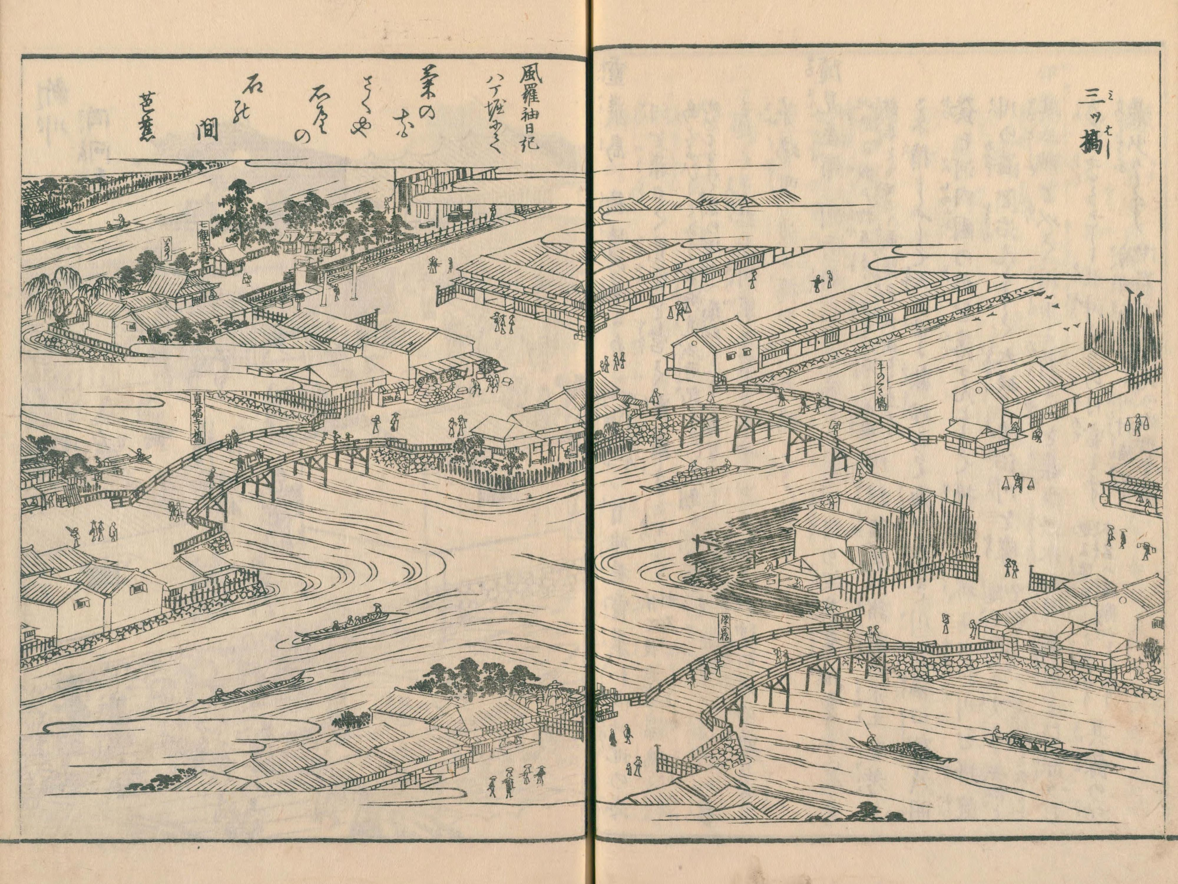 Mitsuhashi (Three bridges) in Edo Meisho Zue vol. 1 (book 2)